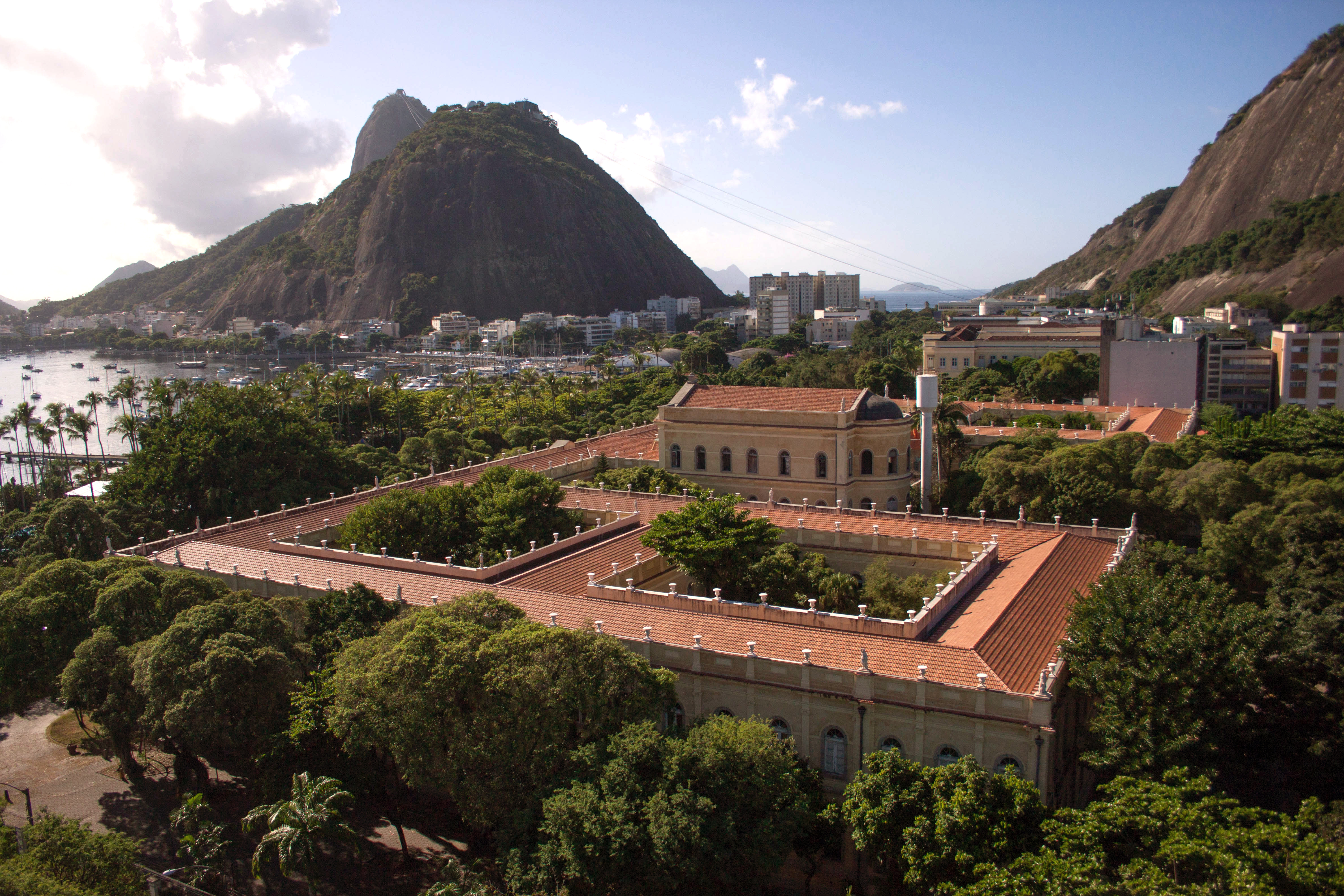 Photograph of the Palácio Universitário of the UFRJ Human Sciences campus, with the Pão de Açucar and Urca Hill Natural Monument in the background.